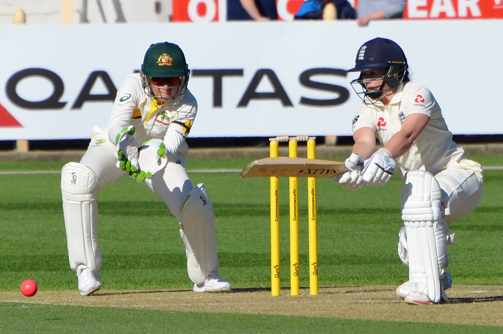 Tammy Beaumont hits out on her way to 70 on the first day of the 2017–18 Women's Ashes Test at North Sydney Oval. The wicket-keeper is Alyssa Healy.